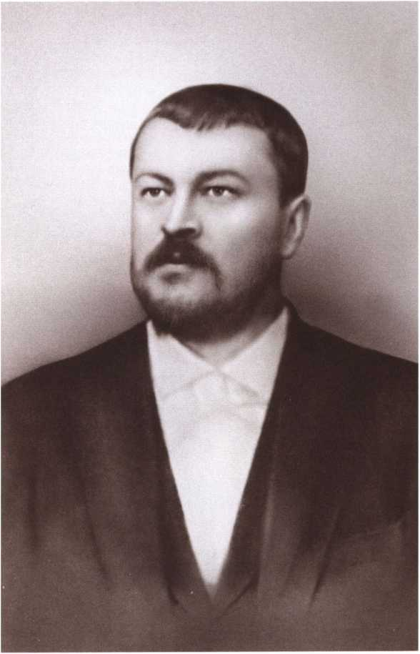 Morozov Savva Timofeevich (1862-1905)